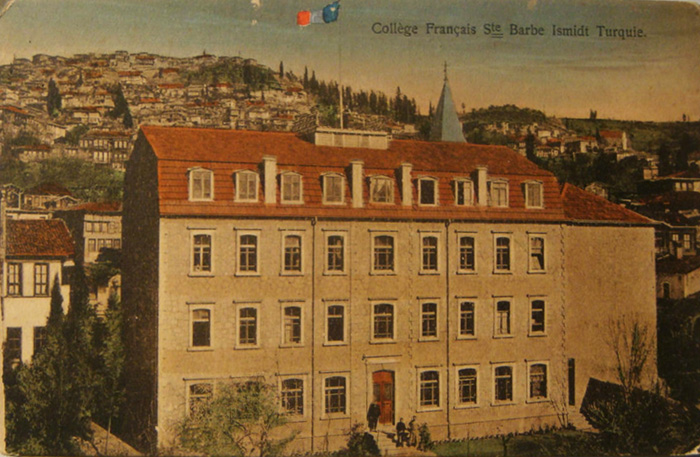 Old postcard of the French college St. Barbara in Izmit, Turkey.